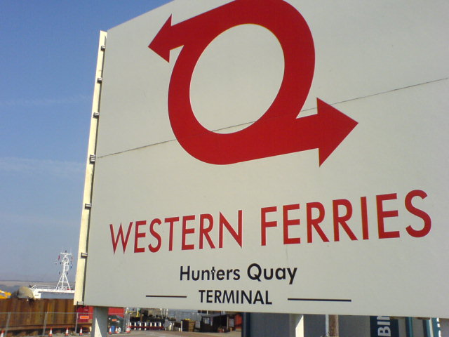 Western Ferries terminal at Hunter's Quay, Dunoon.